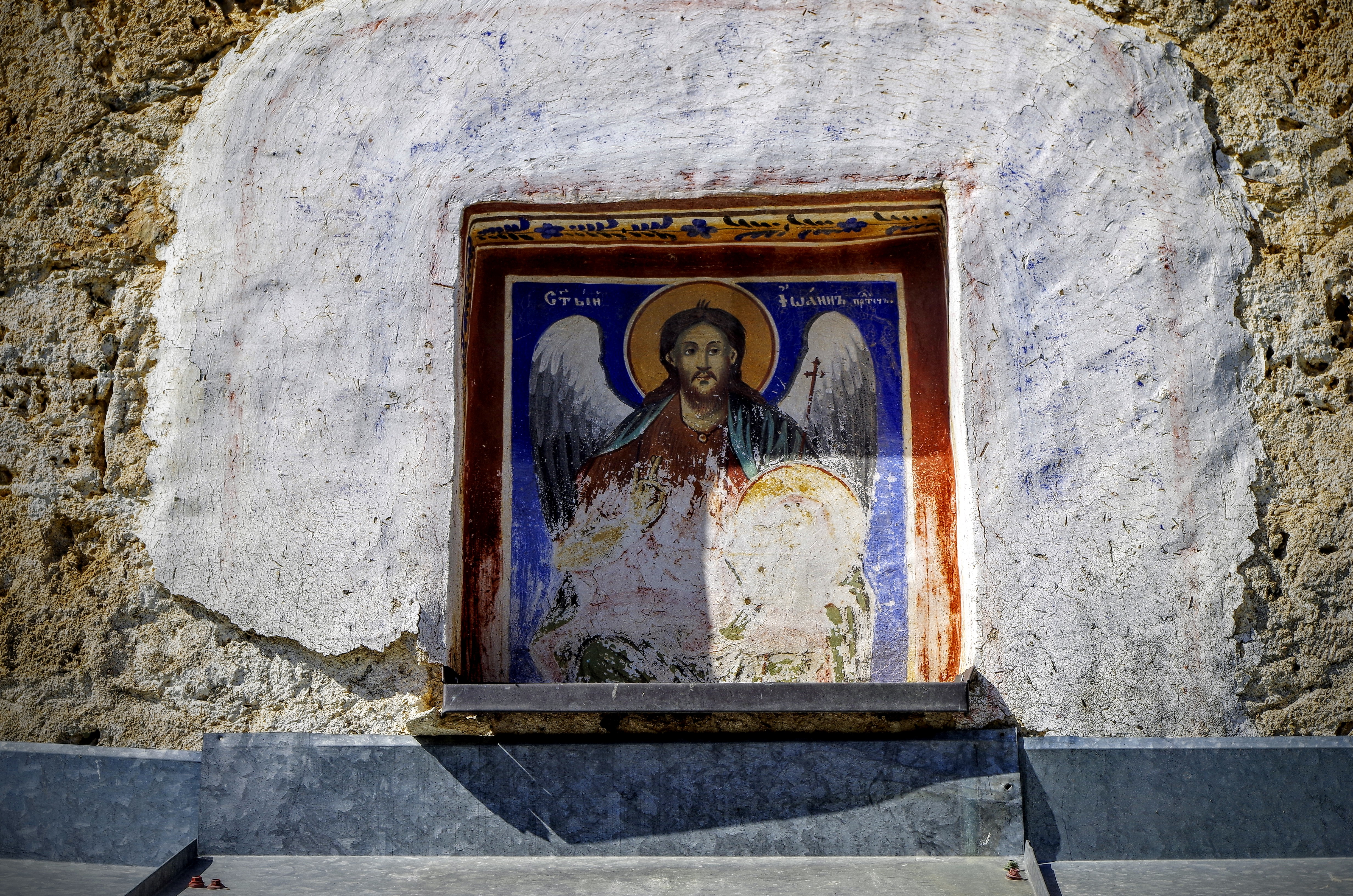 View of the St. Nedela Church in the village Slatino